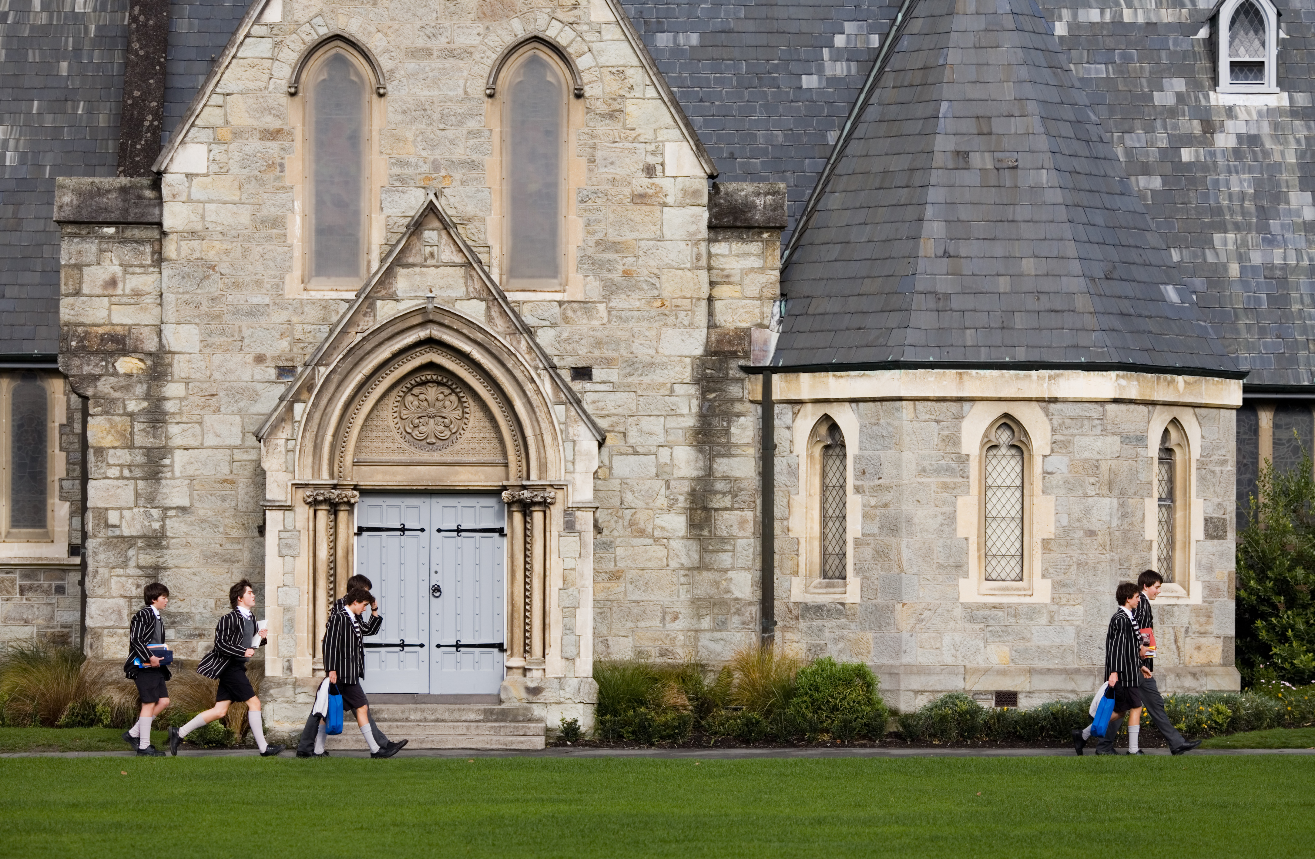 Going to school (Christ's College, Canterbury). Christchurch. New Zealand, 2006